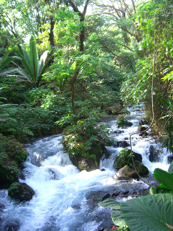 The upper Cupatitzio River in Uruapan National Park — located in the Municipality of Uruapan, Michoacán state, Mexico.